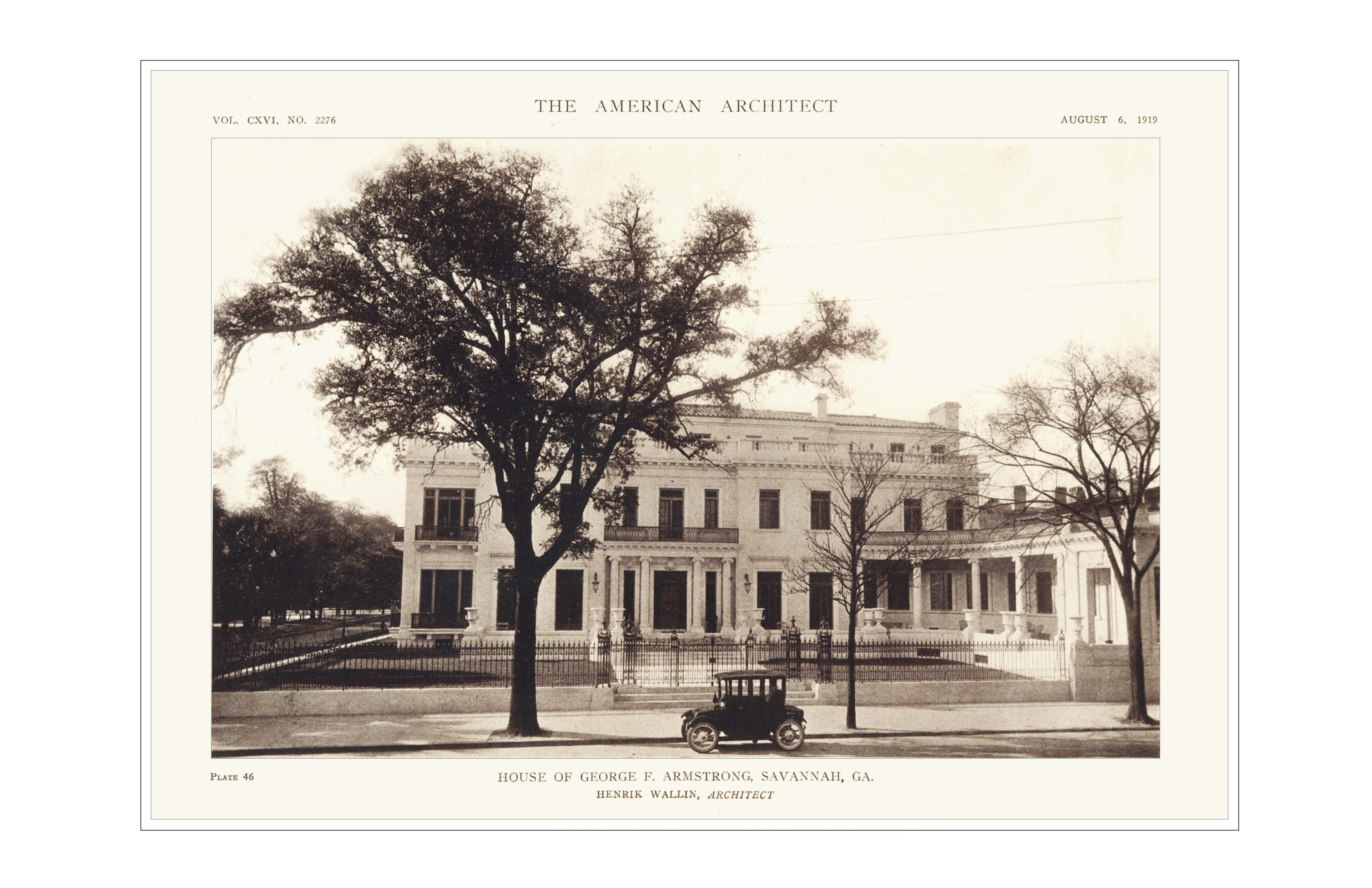 Armstrong Mansion, Savannah, Georgia, 1919